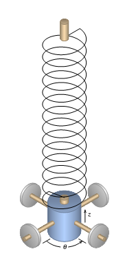 Pêndulo de Wilberforce.